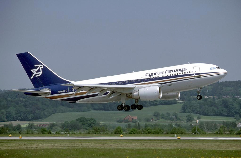 Airbus A310-200 of Cyprus Airways at Zurich Airport